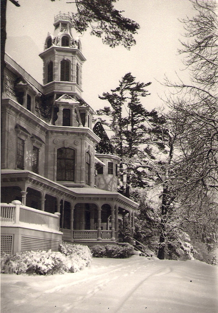 photo of Interpines front entrance by Alice Brody ~1945